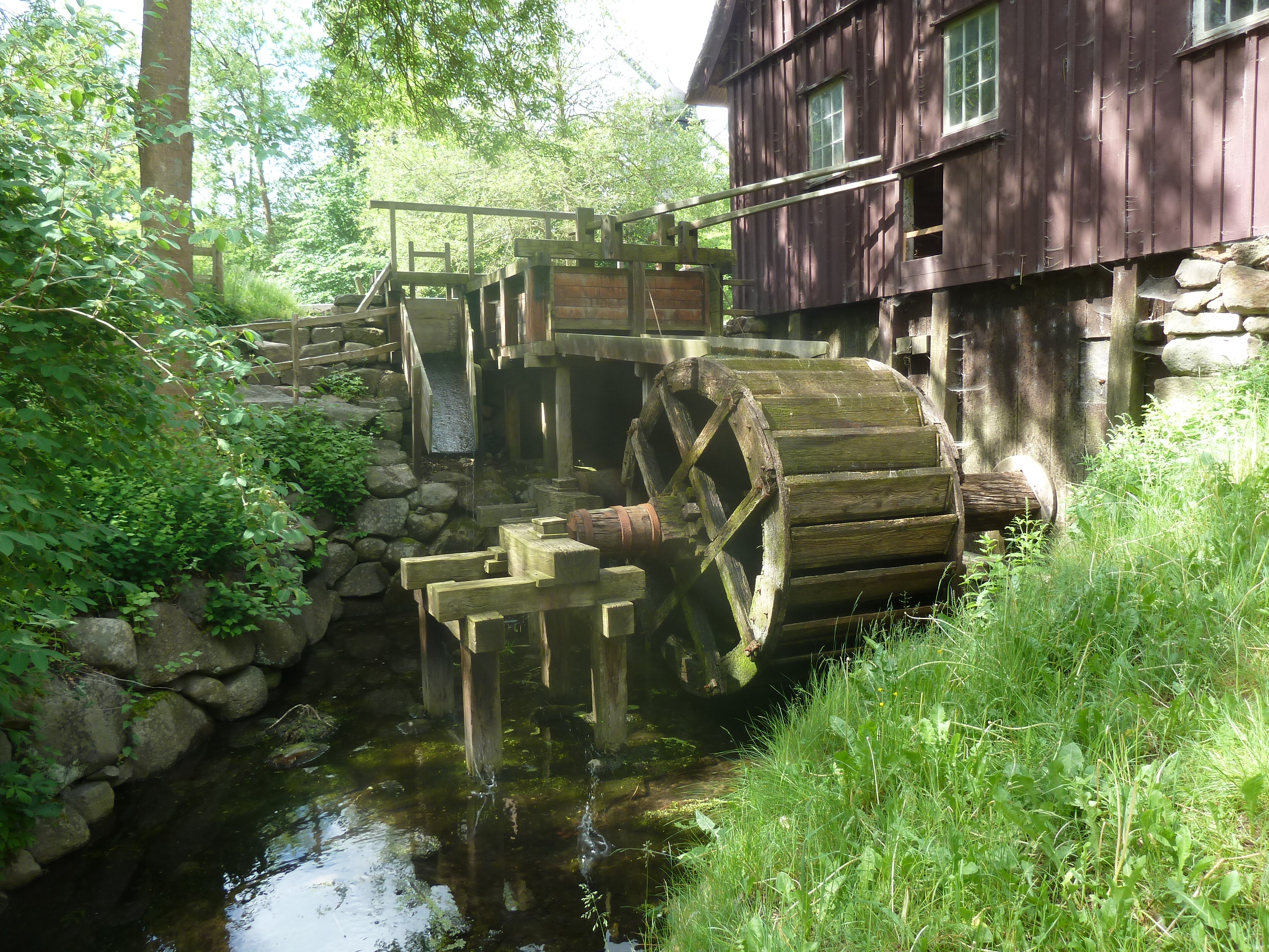 Water mill from Ellested, now on Frilandsmuseet (the open air museum) north of Copenhagen.